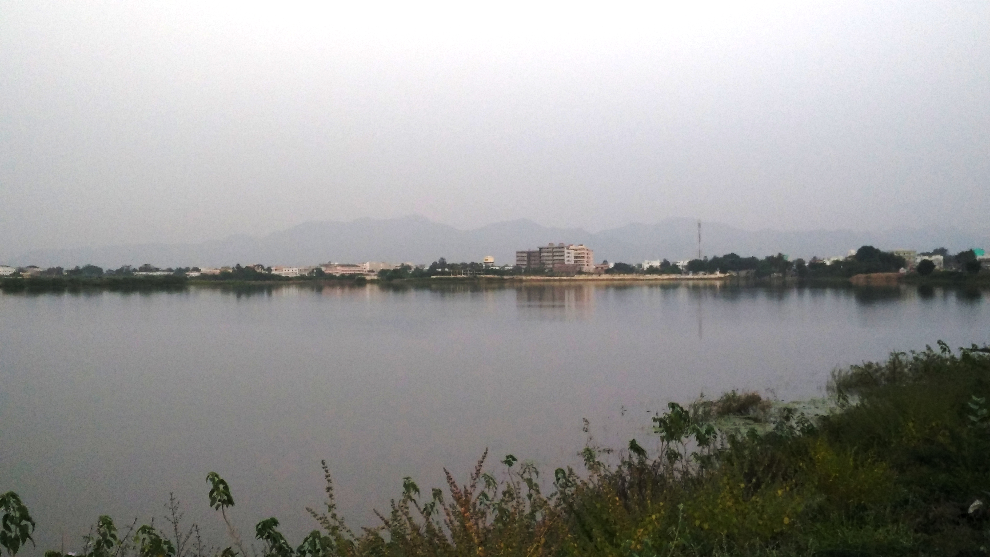 A beautiful view of the Kanchikicherla cheruvu from the National Highway No. 9 which passes along the edges of the pond_Krishna District, A.P